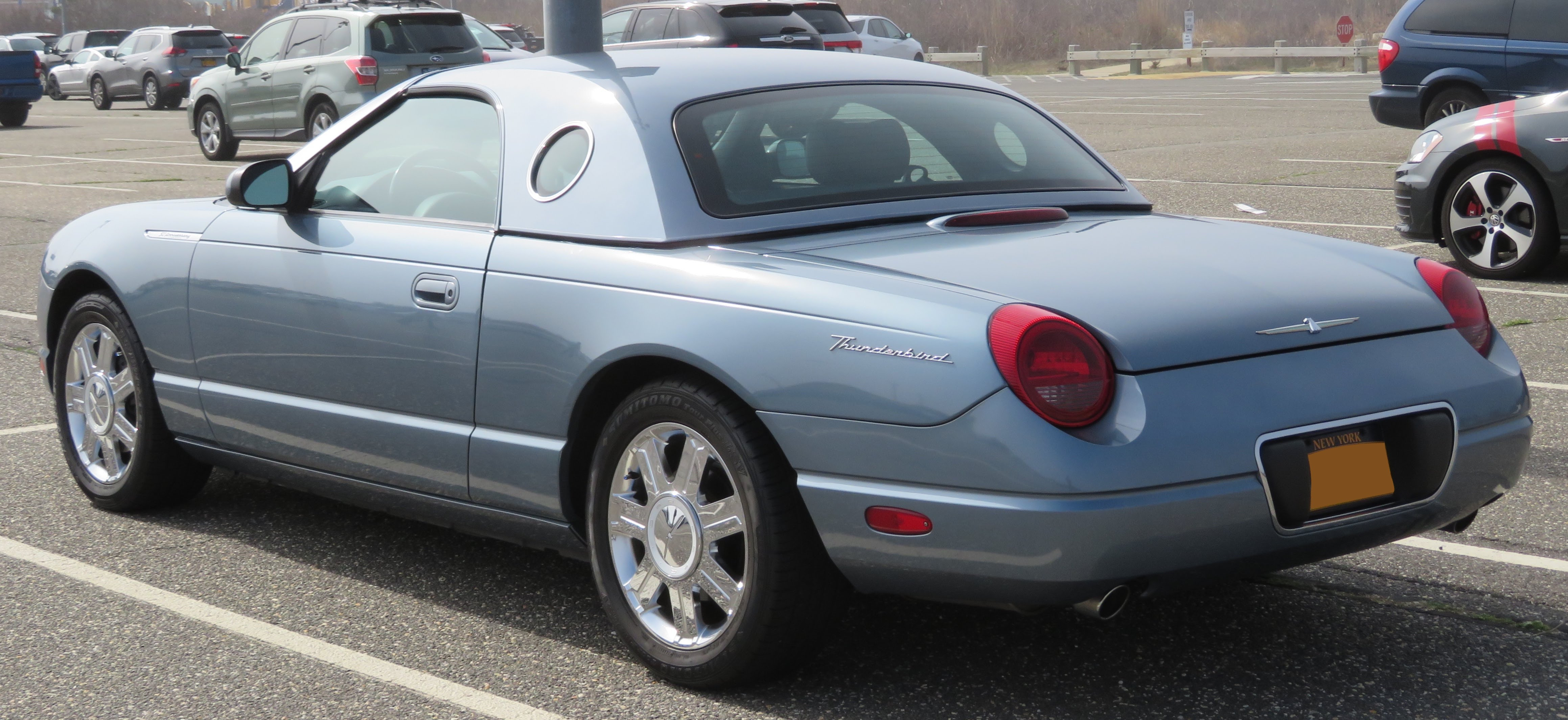 In Long Island, New York